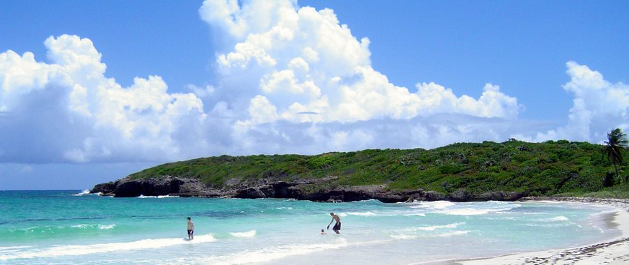 Caribbean Sea, Navio Beach, Vieques Island, Puerto Rico